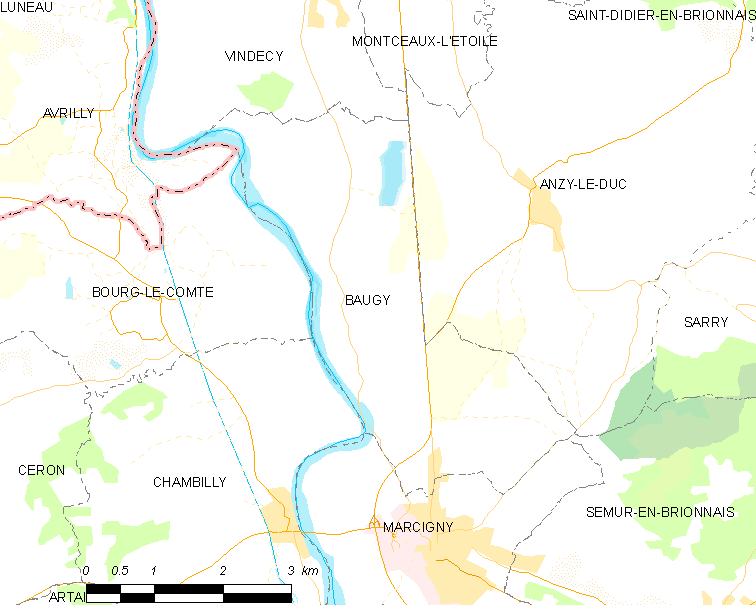 Map of French municipality